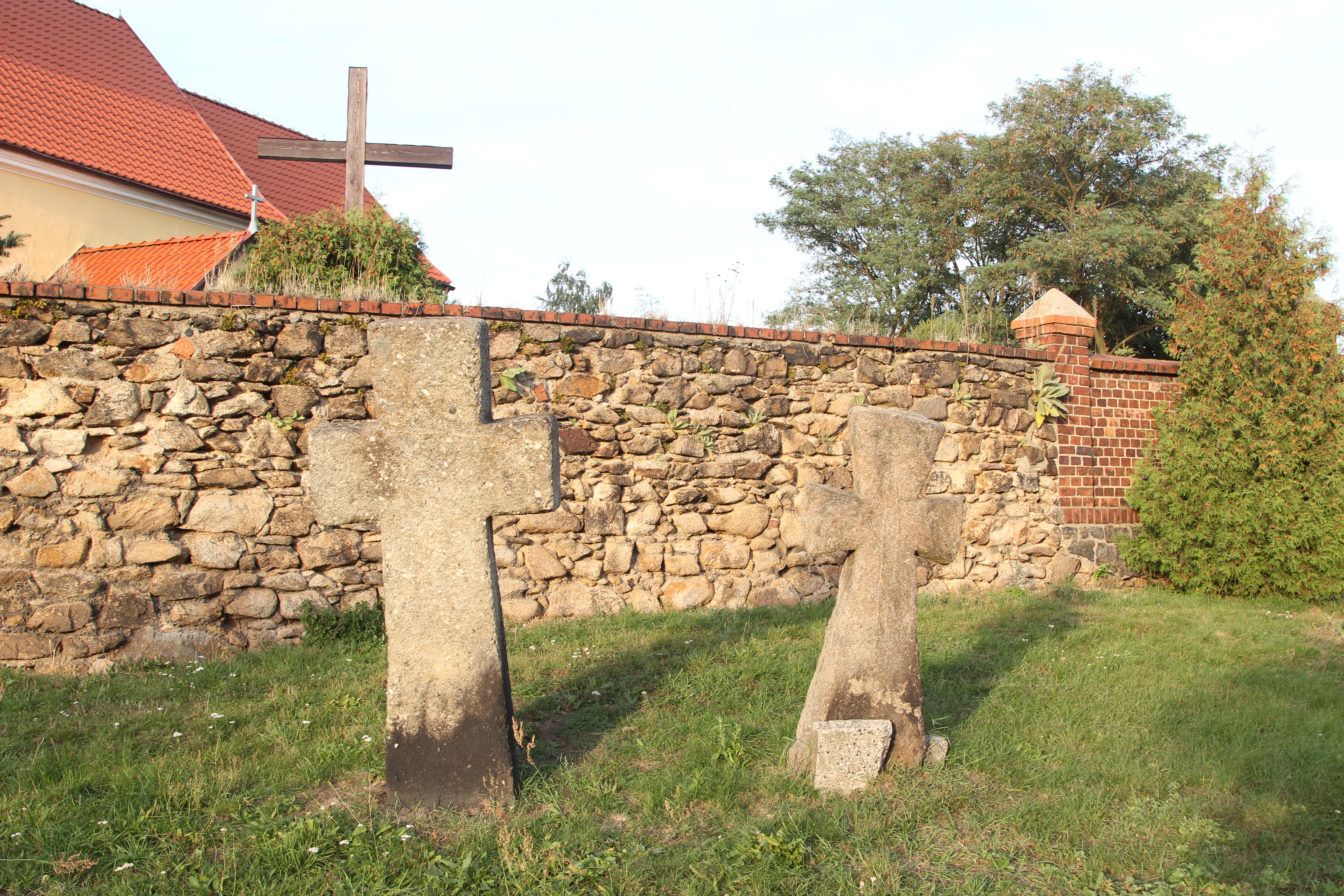 Stone cross in Stary Jaworów